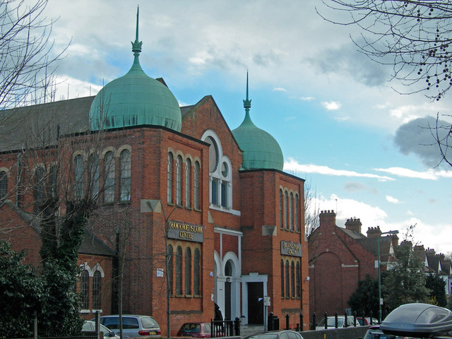 Imam Khoei Islamic Centre, Queens Park This is a converted synagogue on Chevening Road, NW6. The Al-Khoei Foundation is an international Islamic charitable organisation for the welfare of the Shi'a (and some non-Shi'a) Muslim communities in the UK and abroad. It administers two schools in the UK, which provide education in accordance with the National Curriculum at primary and secondary level, and has schools abroad.